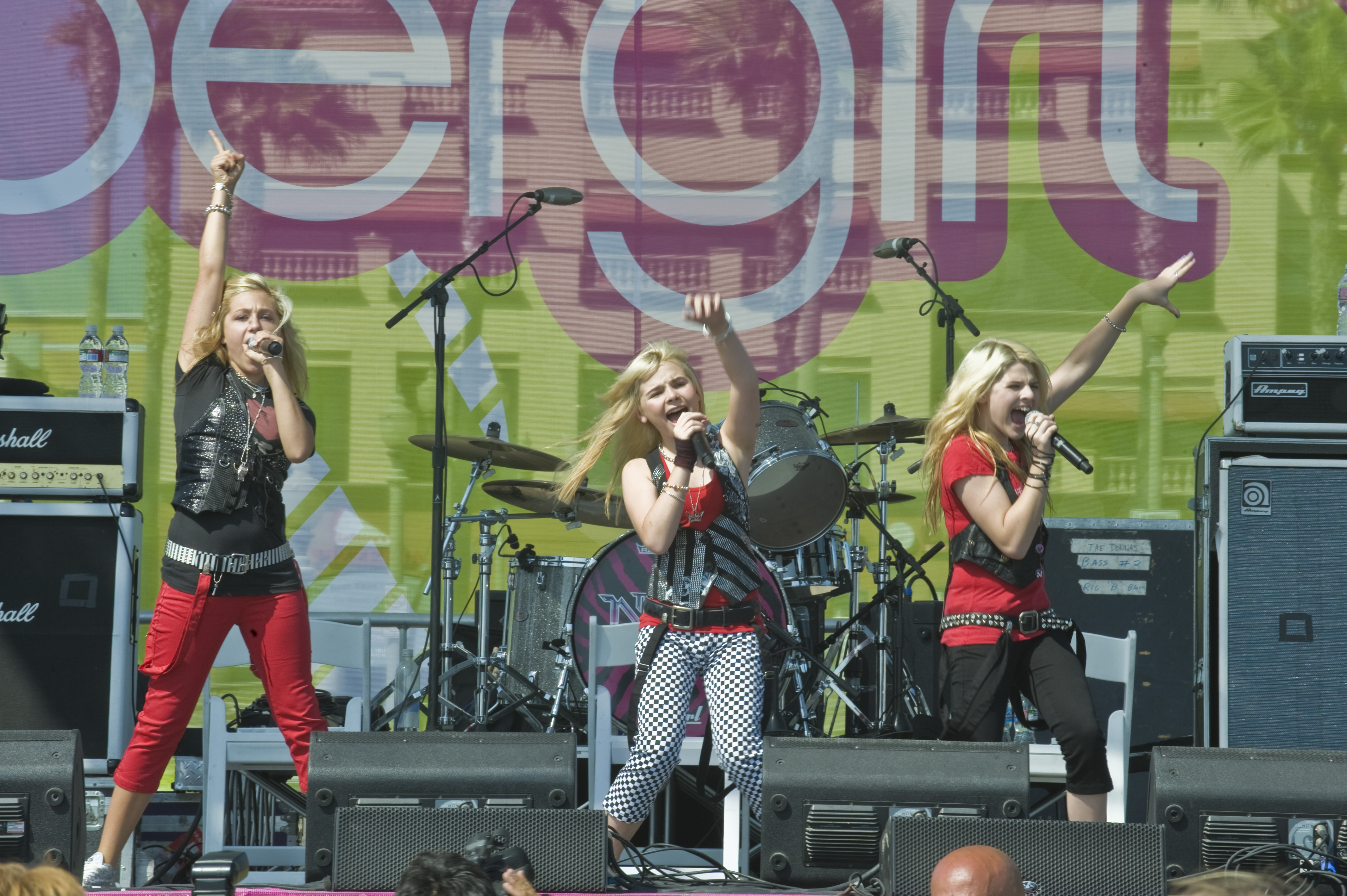 Clique Girlz on the SuperGirl Stage at the US Open of Surf